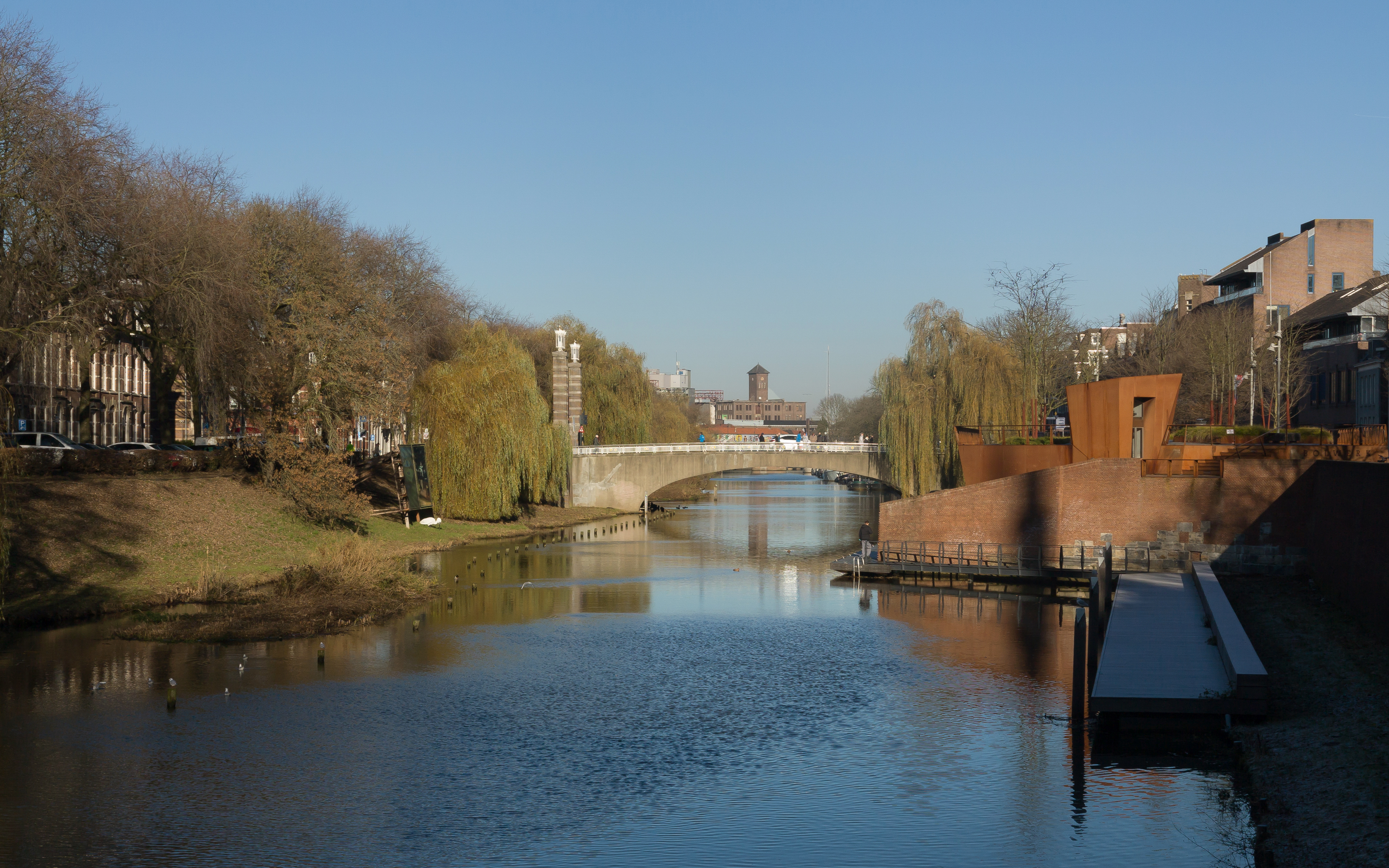 's-Hertogenbosch, the Dommel from Mariënburg